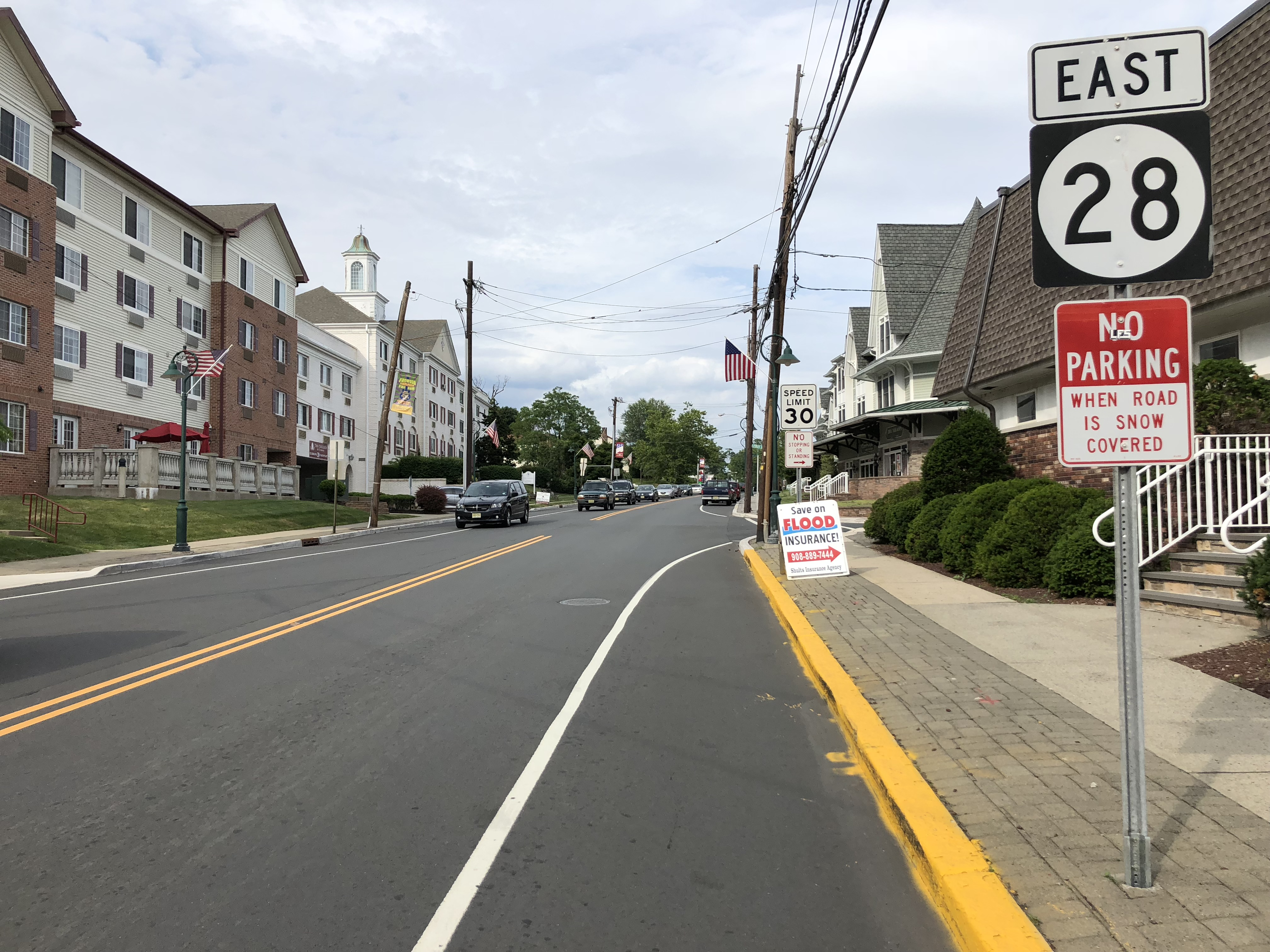 View east along New Jersey State Route 28 (South Avenue) just east of Union County Route 655 (Martine Avenue) in Fanwood, Union County, New Jersey